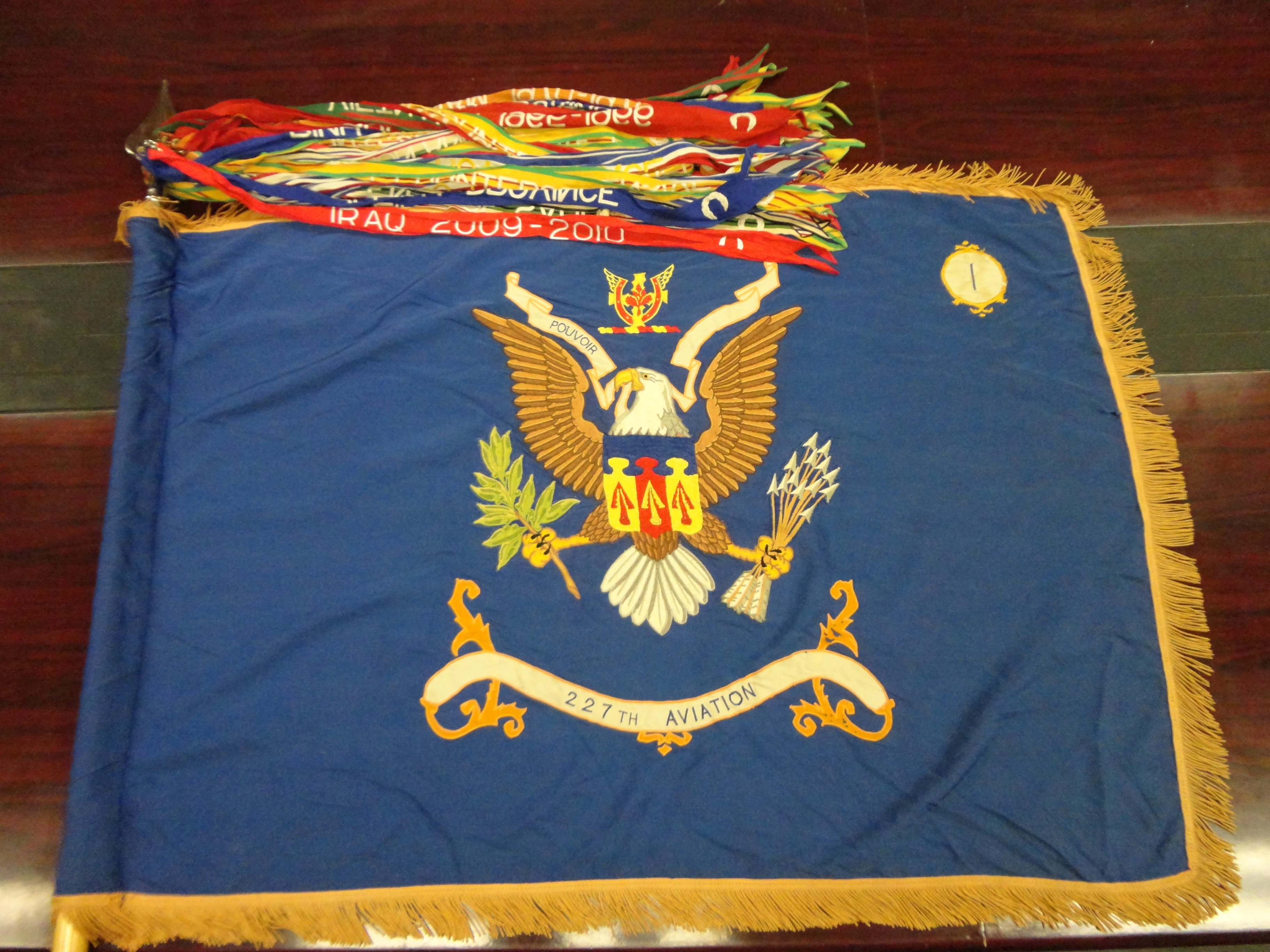 The colors and battle streamers of the 1st Battalion, 227th Aviation Regiment